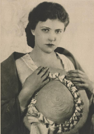 Ruth Chatterton, in the title role of Barrie's newest drama, "Mary Rose", from a 1921 publication. Photography by Francis Brugiere.